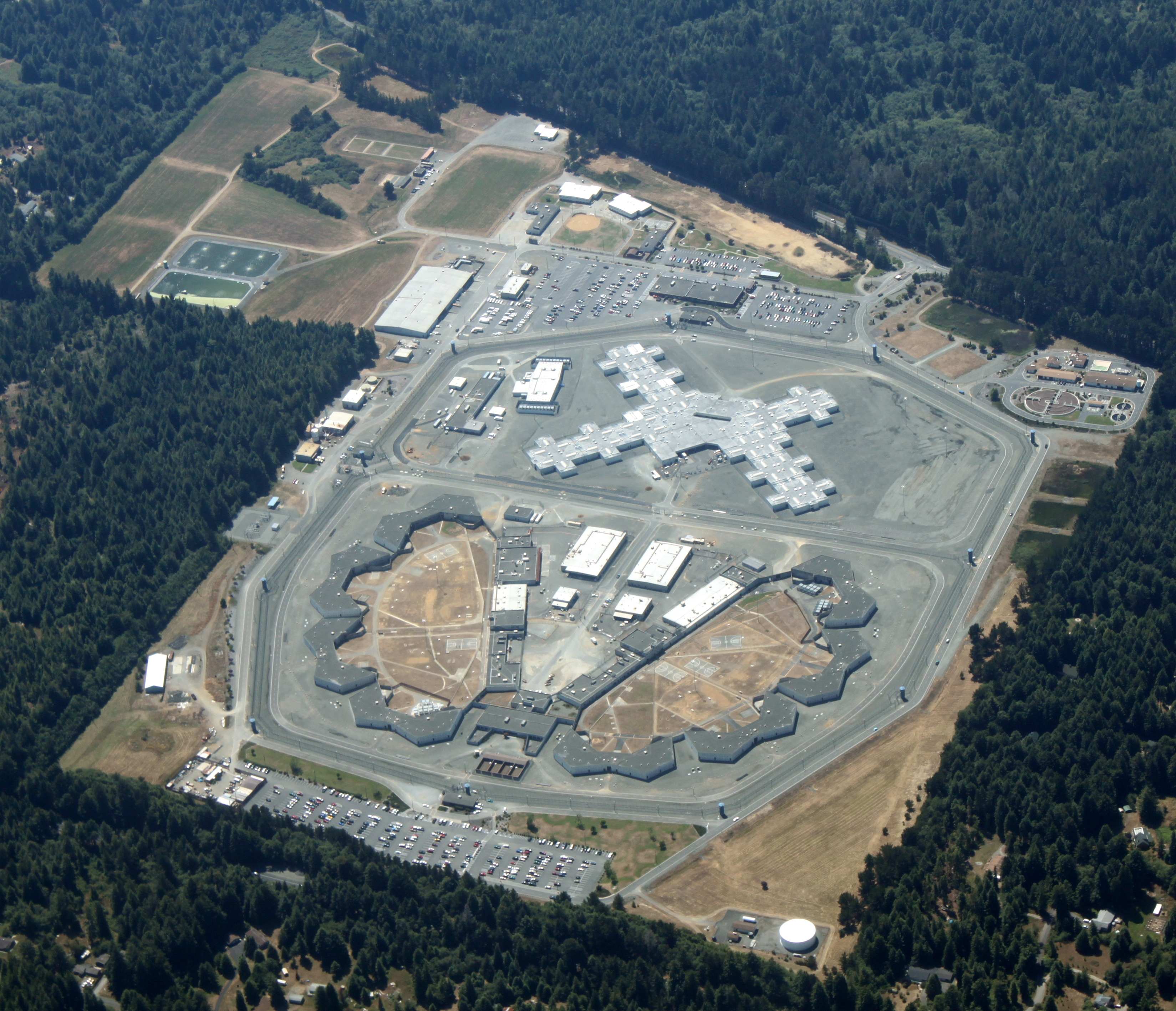 Pelican Bay State Prison, looking west, taken July 27, 2009, from 6,500 feet MSL